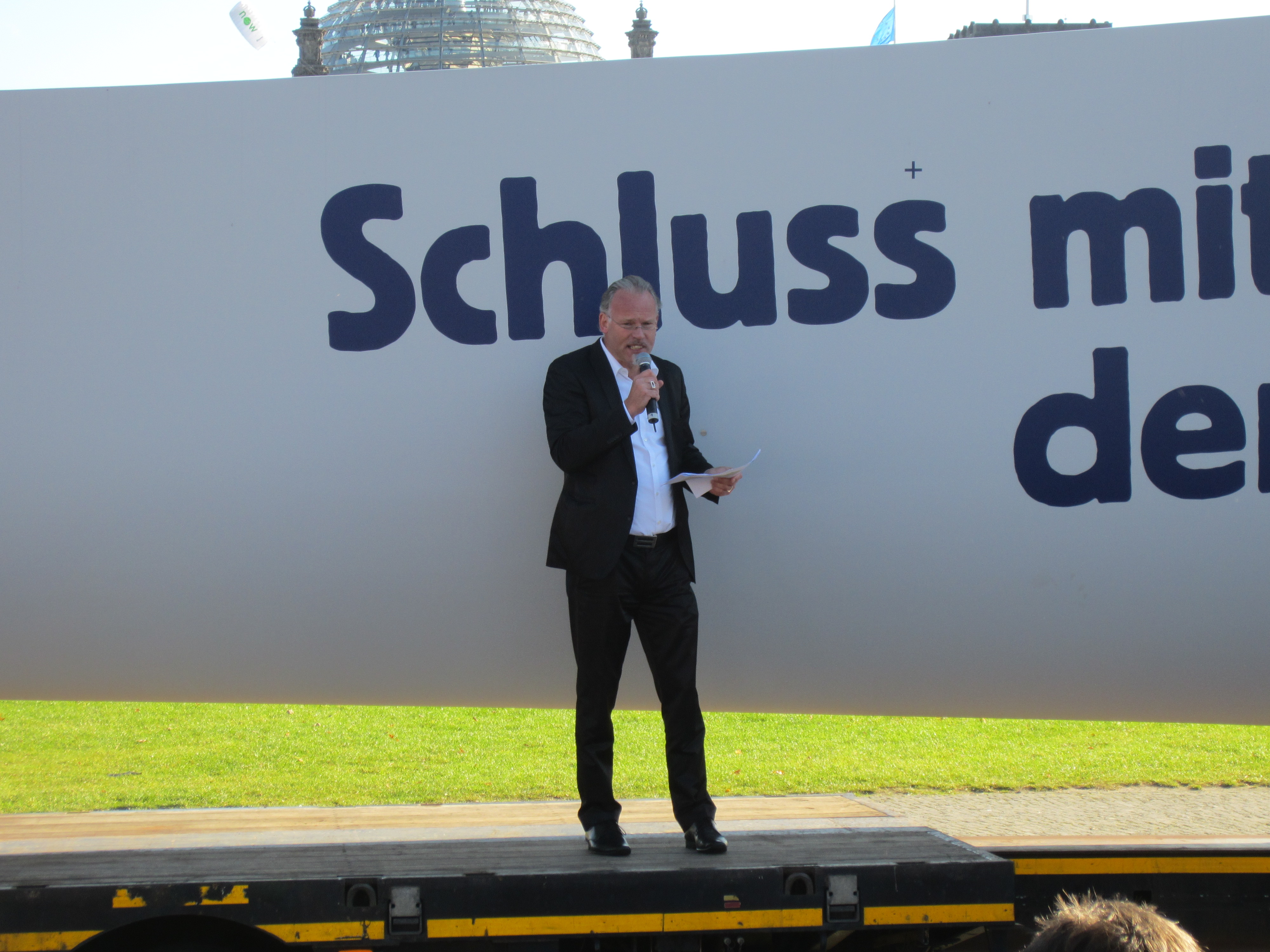 Hermann Albers, vice president of german wind energy lobby Bundesverband Windenergie, in front of the german parliament.